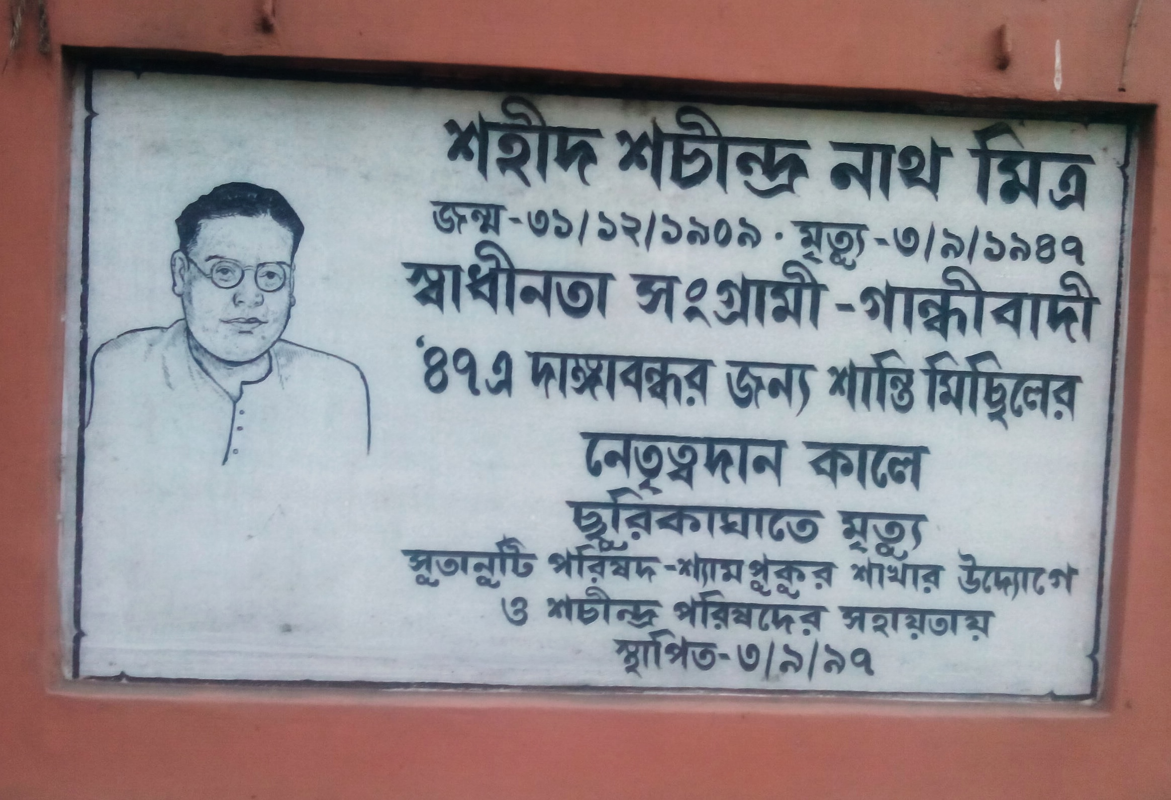 Sachindra nath mitra plate in Bagbazar